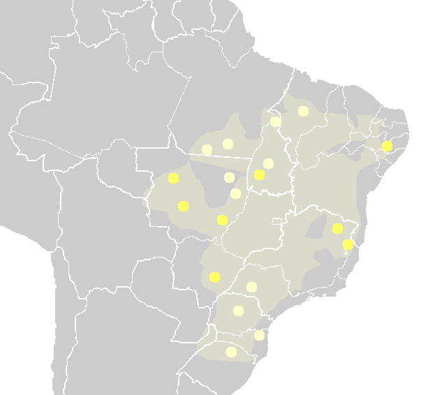 Proper Gê (clear yellow), Other Macro-Gê (dark yellow) living languages areas and approximate early probable areas (yellow-grey). Based on data "Aryon D. Rodrigues" in The Amazonian Languages, Dixon & Alexandra Y. Aikhenvald (eds.), Cambridge: Cambridge University Press, 1999. p. 164.